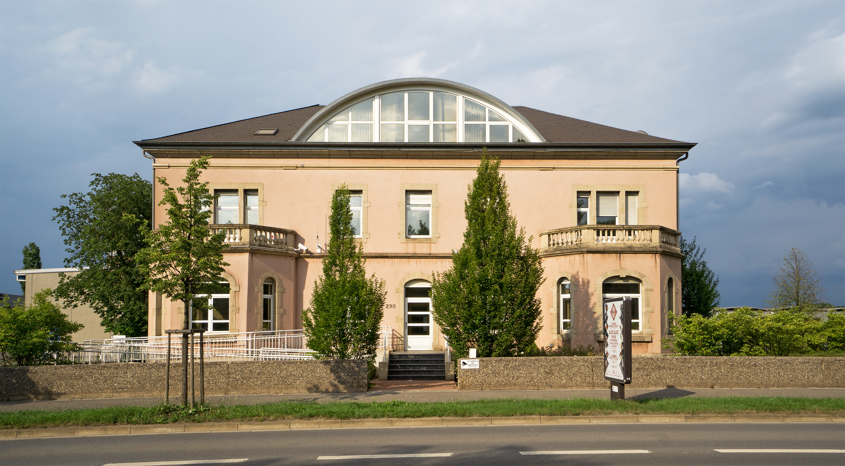 Administrative building of the TICE in Esch-Alzette, bvd Charles de Gaulle